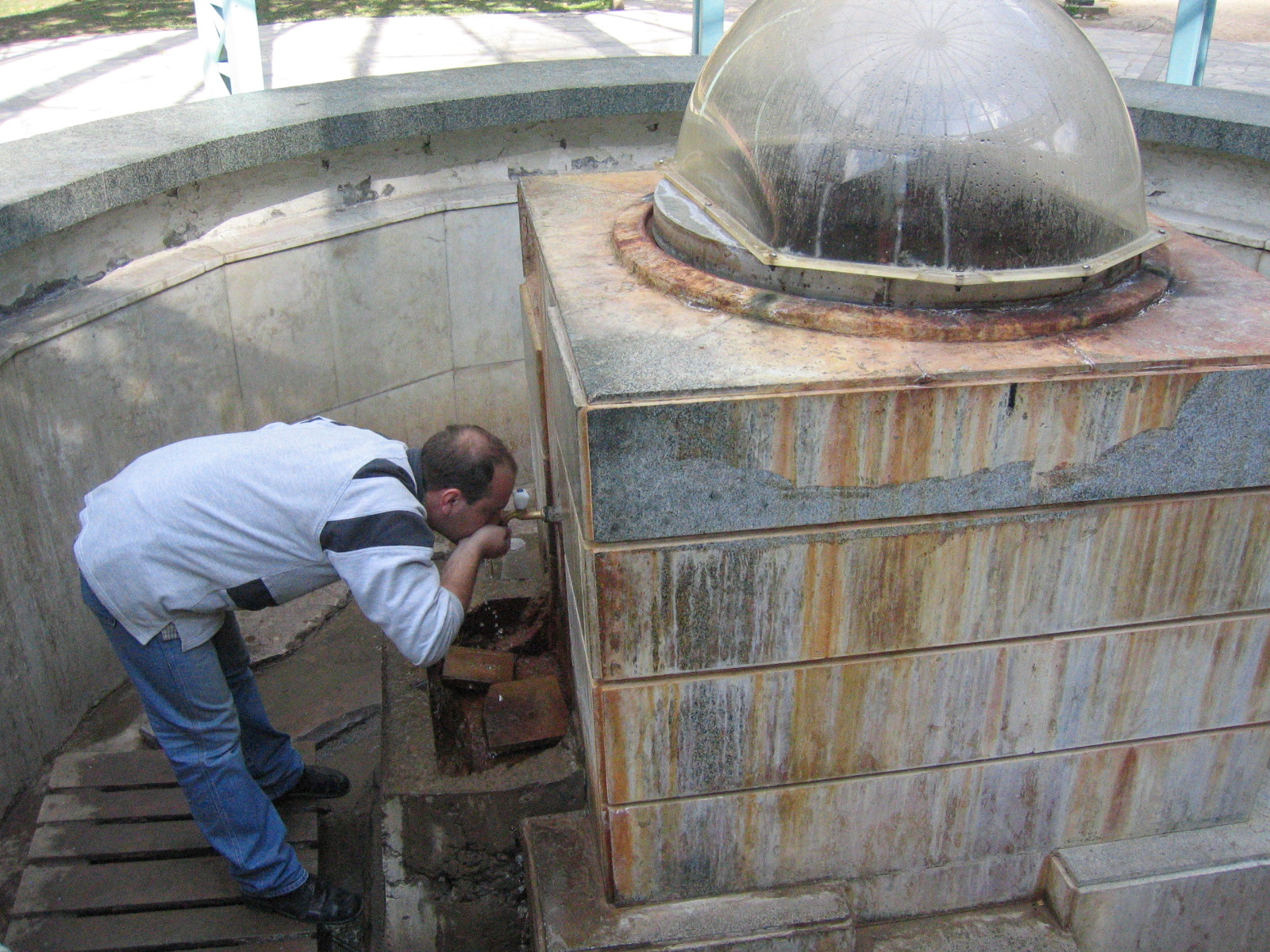 Borjomi